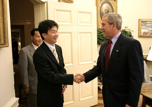 Photo of Kang Chol-hwan meeting President George W. Bush. White House photo taken by Eric Draper.